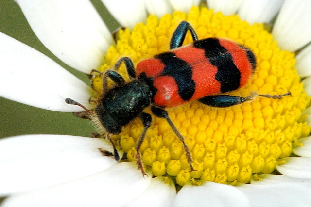 Picture taken in Commanster, Belgian High Ardennes . Species: Trichodes apiarius